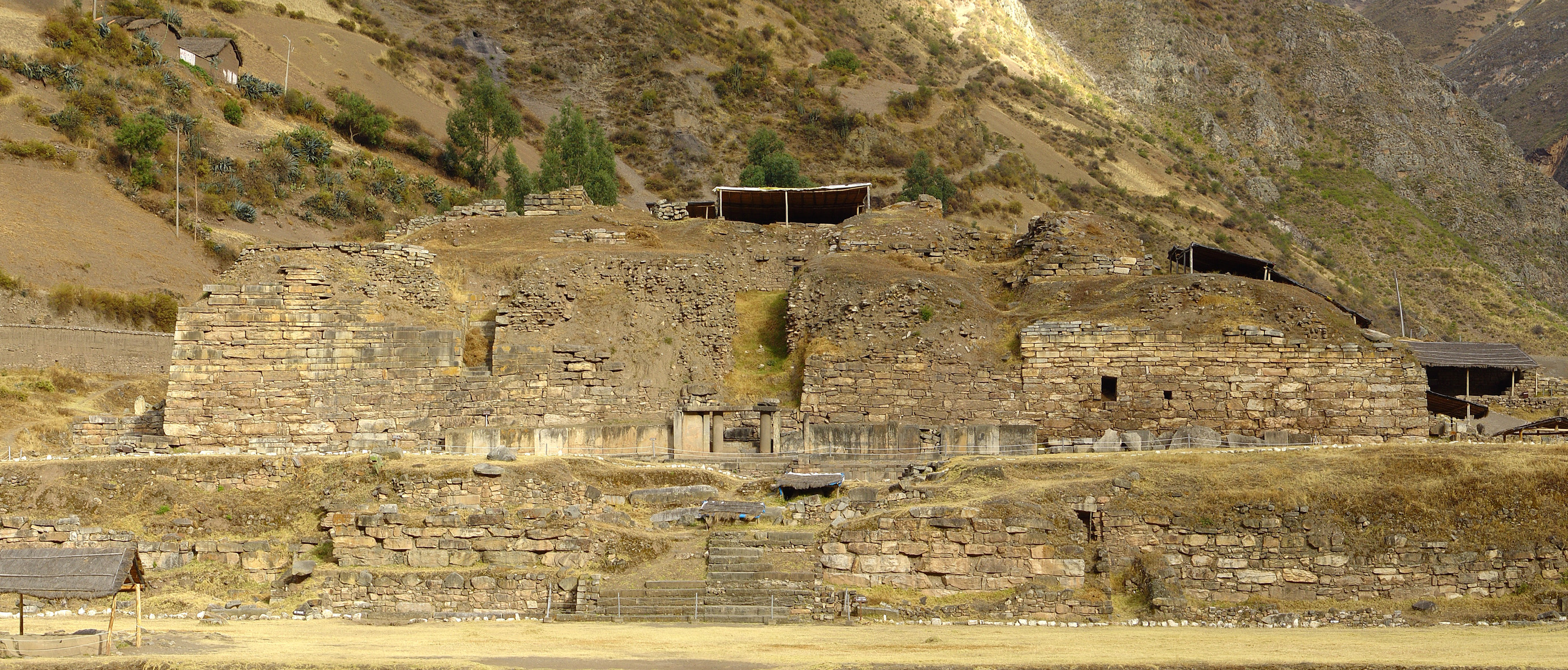 "El Castillo" temple a Chavin de Huantar, Peru